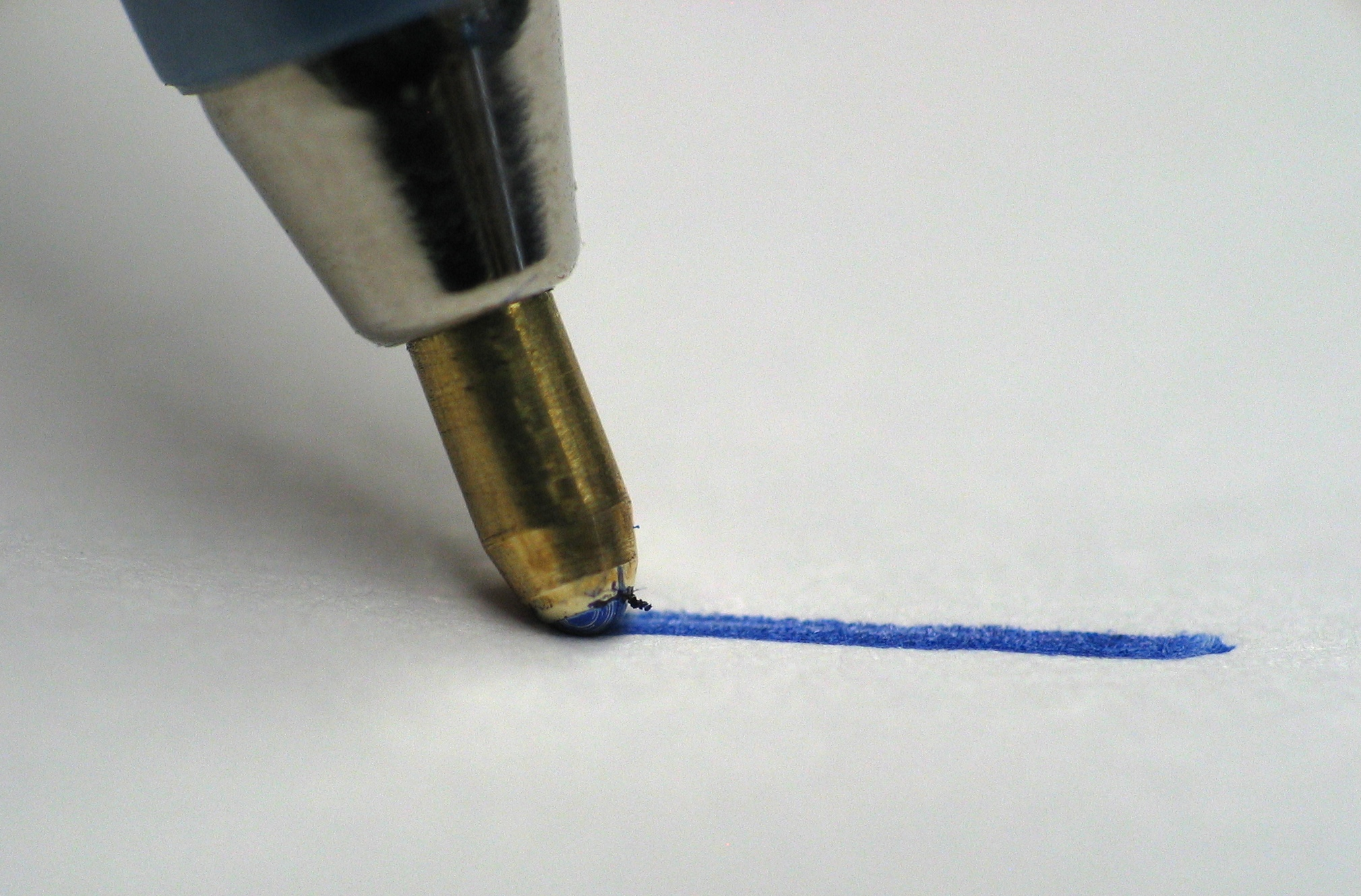 Ball point pen (Biro) writing We have degree qualified writers who are able to complete.